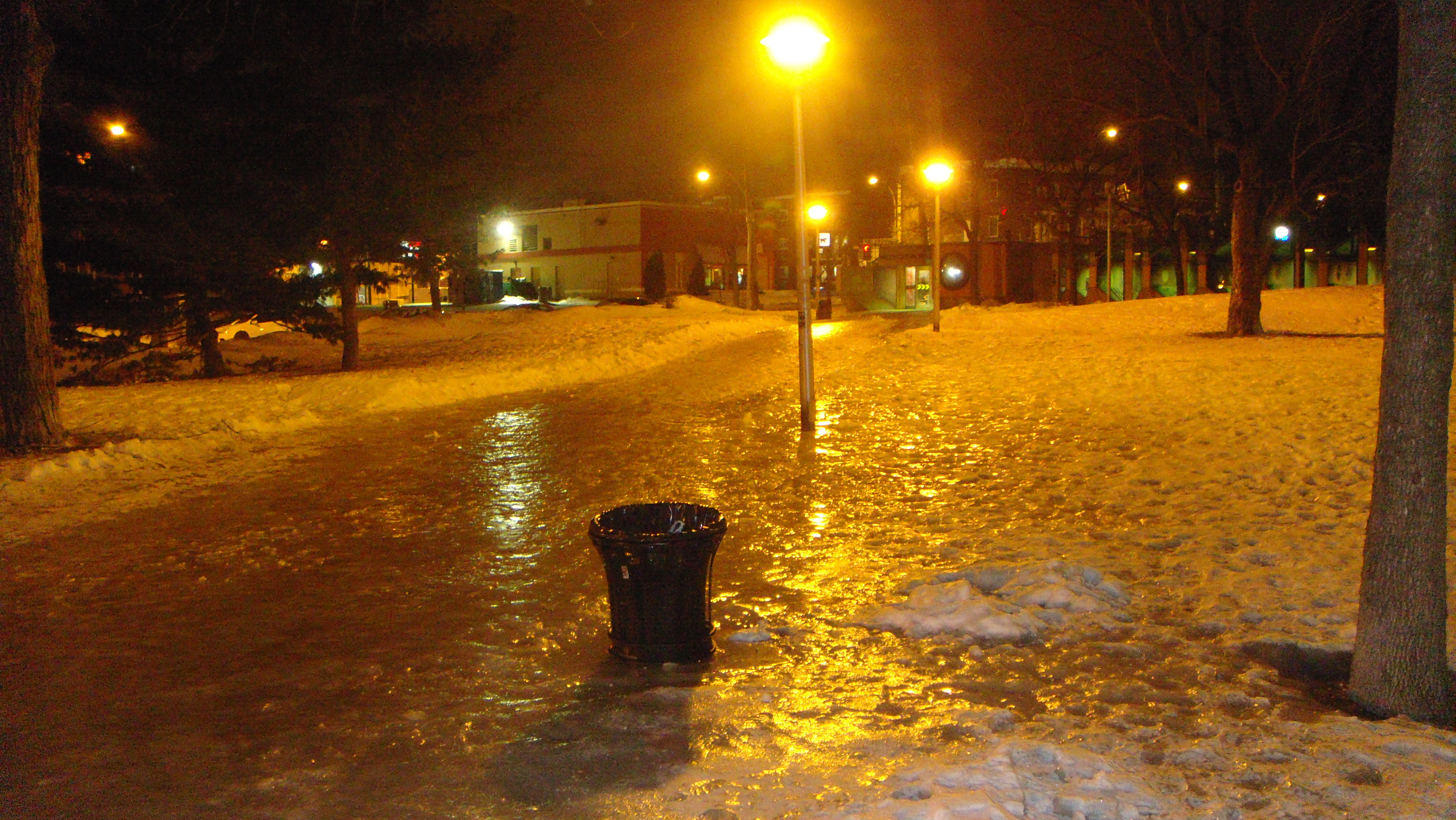 Glaze Ice (Montreal, Quebec, Canada)